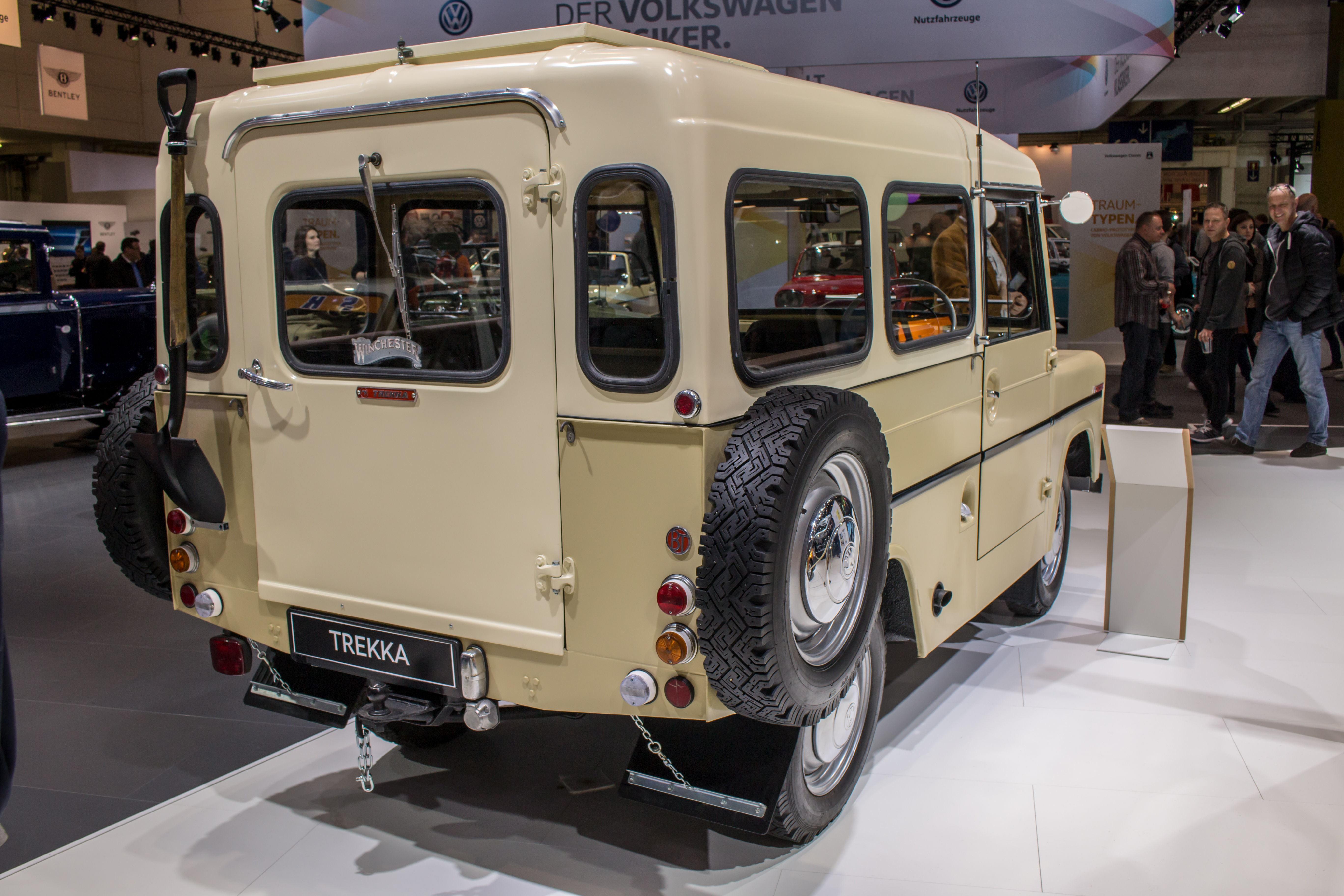 Techno-Classica 2018, Essen